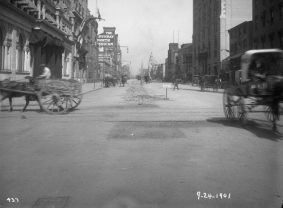 North Broad at Arch Street (100 Block of North Broad). Photo is facing north from Arch Street during pipeline placement. Photo features include an advertisement in top left for The North American, a daily newspaper.